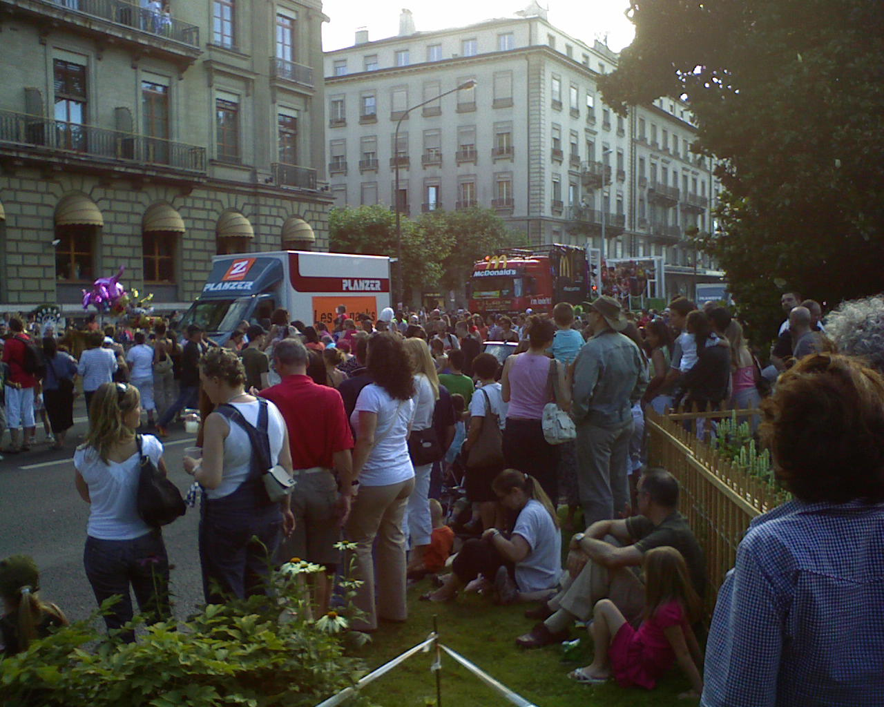 This picture was taken by myself (Linuxboksen) in Geneva July 7th 2007. I hereby donate this picture to the Wikipedia community under the GPL license.